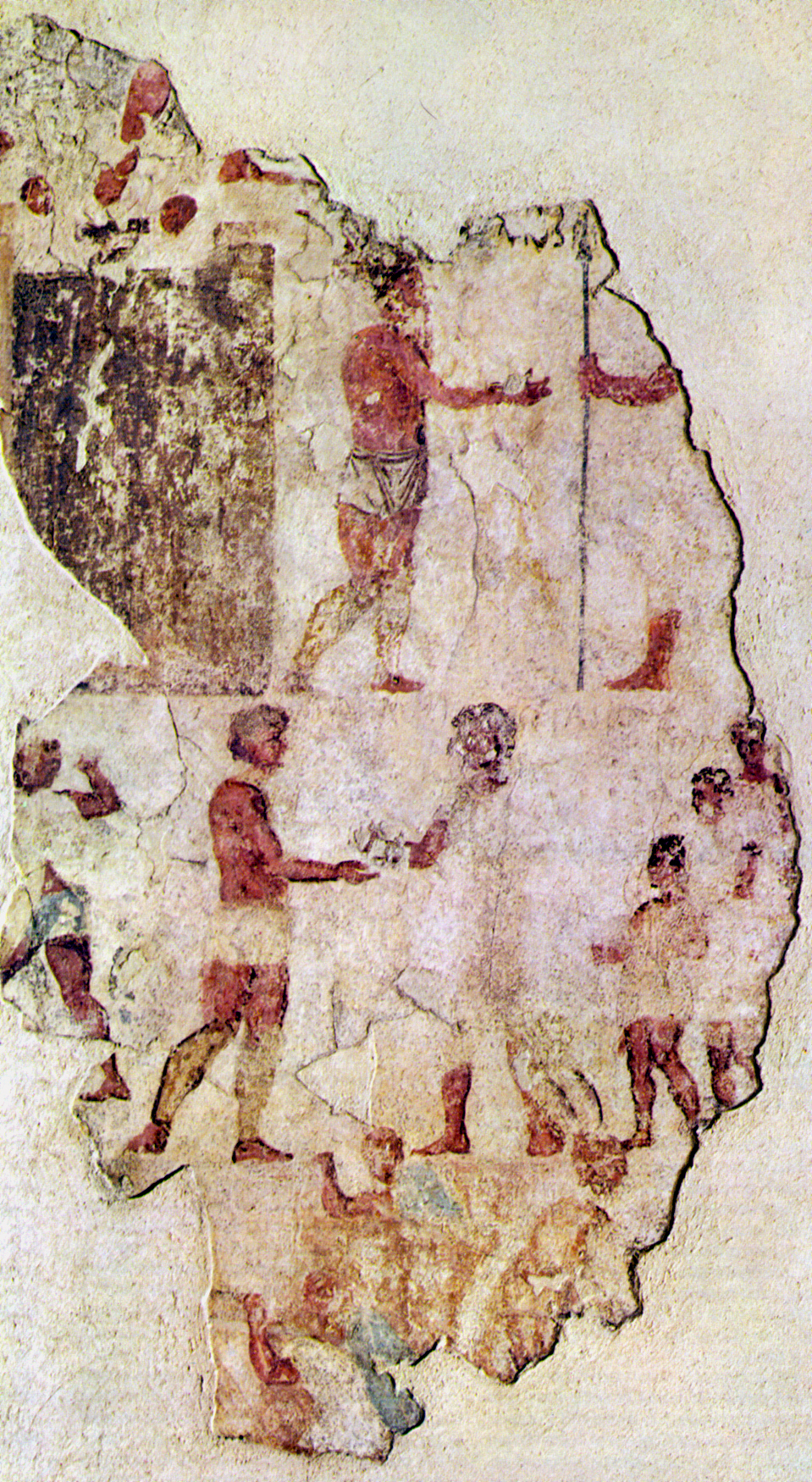 Ancient roman fresco from the Necropolis of Esquilino, dated c. 300-280 BC. Maybe representing scenes from the second samnitic war.